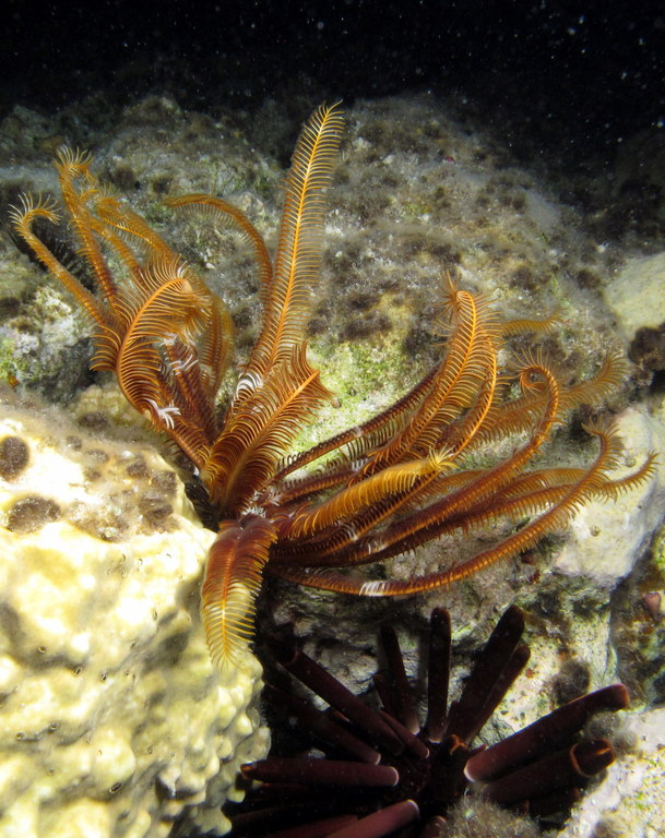 Two echinoderms at Marsa Shouna (Red Sea, Egypt) : a sea urchin (Heterocentrotus mamillatus) and a feather star (Crinoidea sp.)